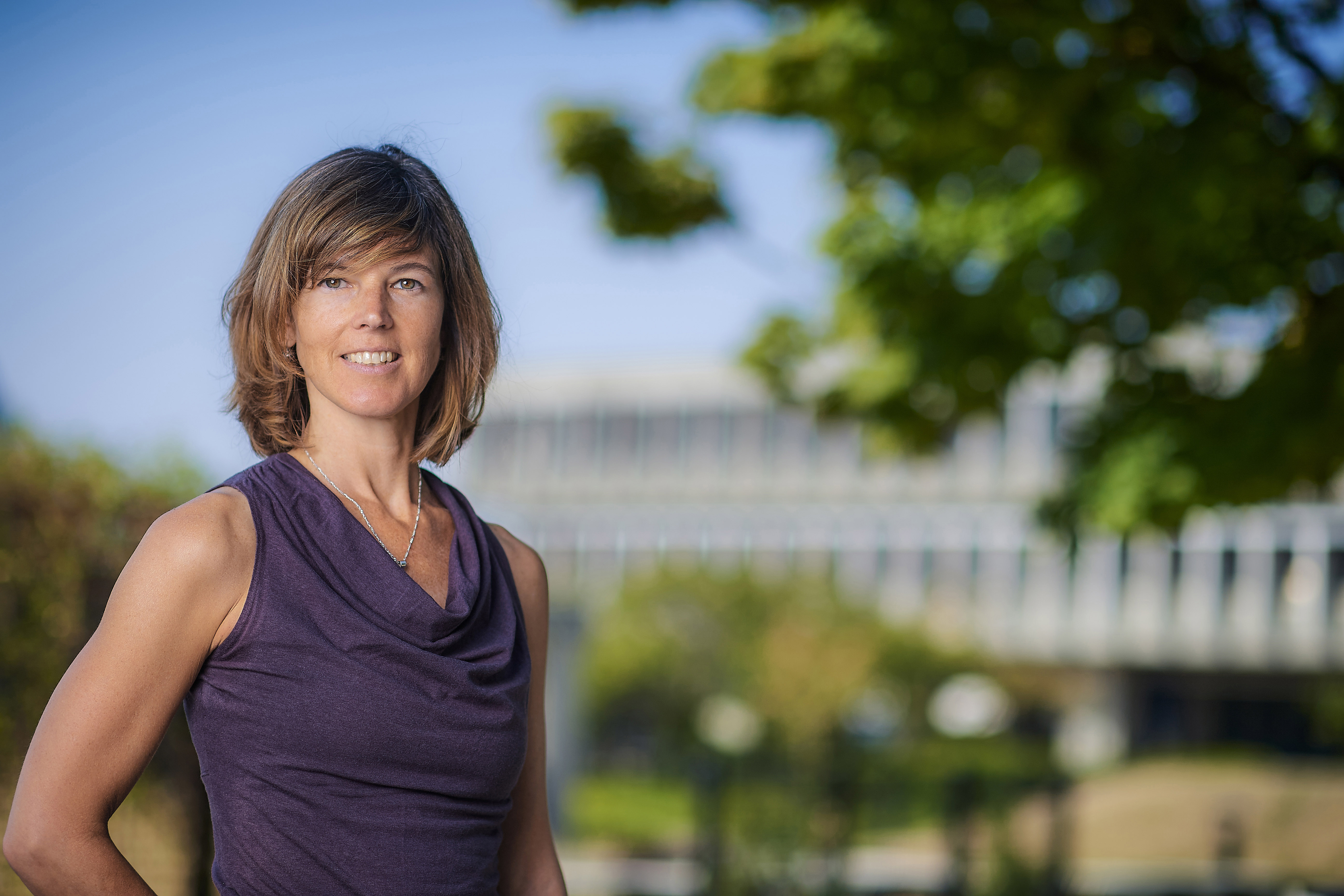 SFU education professor Nathalie Sinclair.